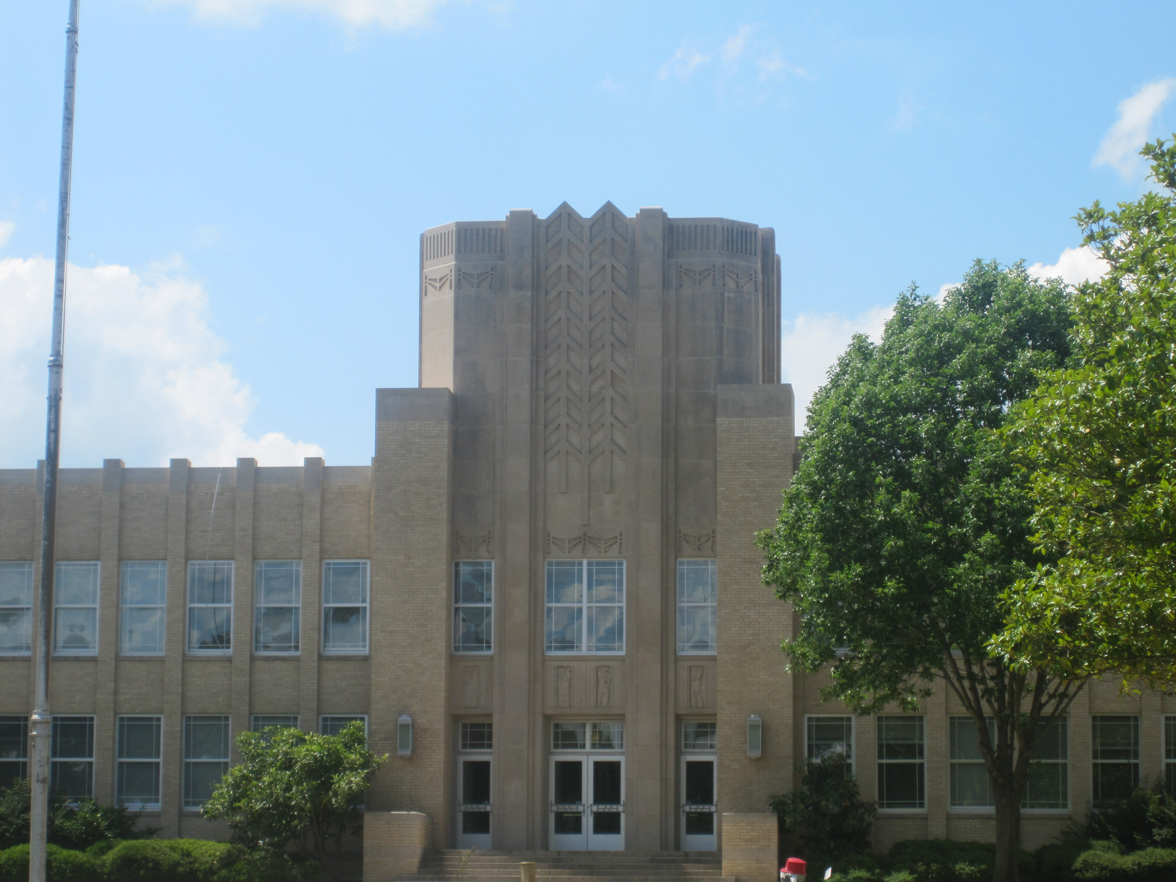 I took photo with Canon camera.